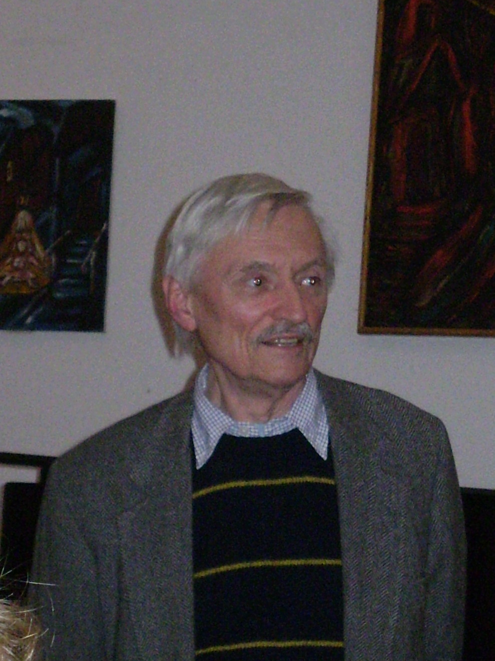 Leonid Hrabovsky, ukrainian composer, 2008 Леонід Грабовський, український композитор, 2008